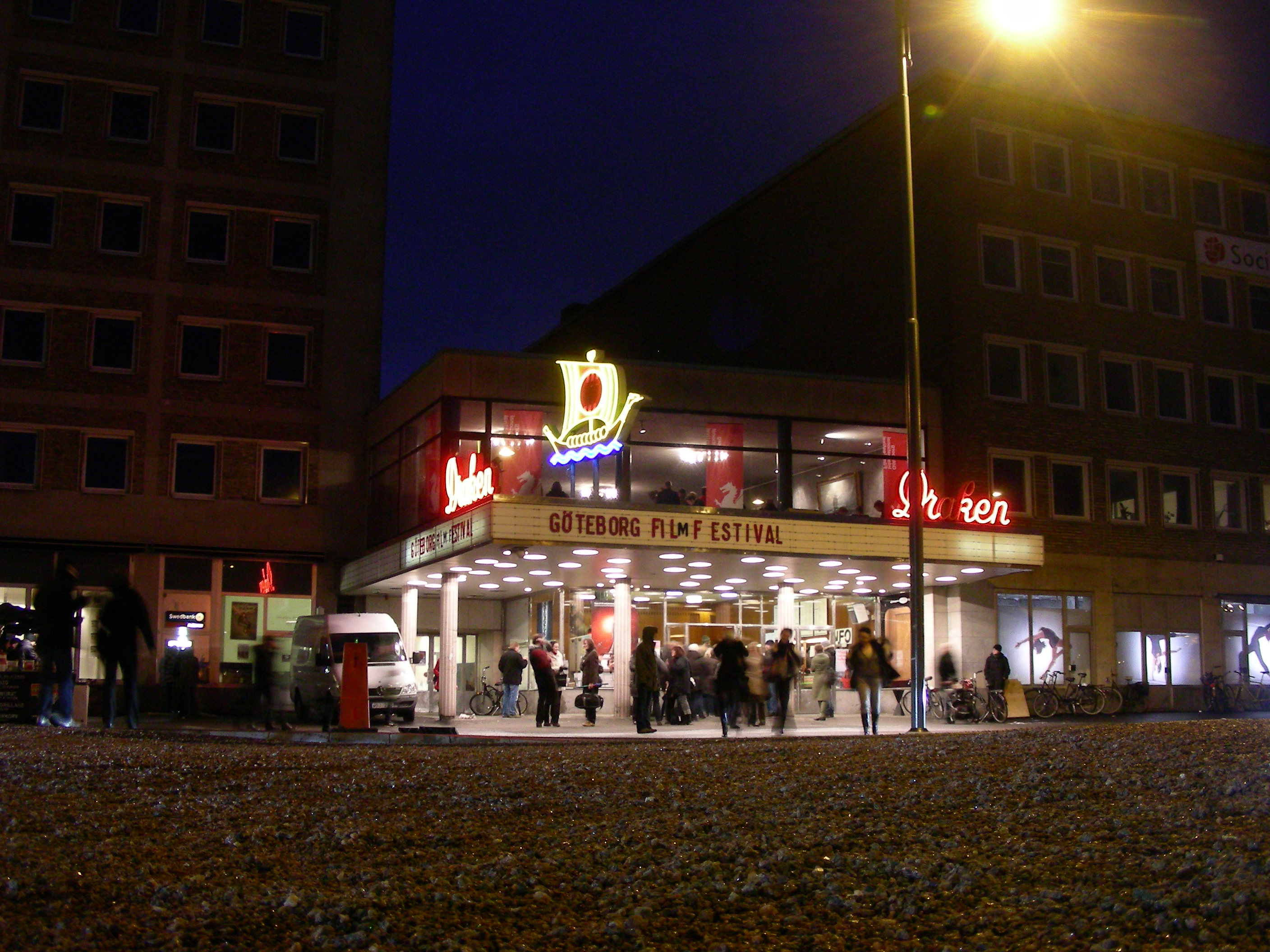 Cinema Draken, during Gothenburg International Film Festival 2008 (Draken (biograf, Göteborg) Camera: Nikon Coolpix S4 Location: Järntorget, Gothenburg, Sweden.